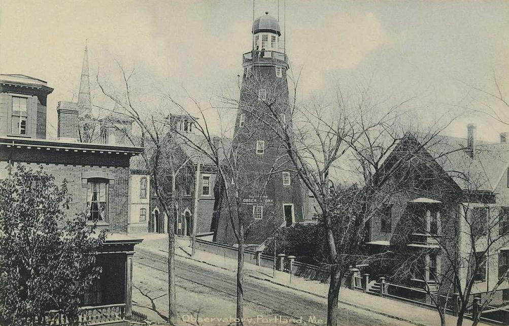 The Portland Observatory, Portland, Maine. The maritime signal tower on Munjoy Hill was built in 1807.